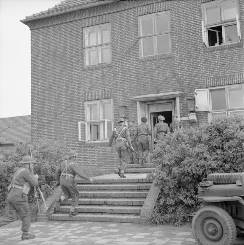 Germany Under Allied Occupation Men of 'A' Company, 1st Battalion, The Cheshire Regiment storm the building in Muivik, a few miles from Flensburg, in which members of the German Government were sheltering. Twelve 'Grade 1' prisoners were taken including General Jodl.